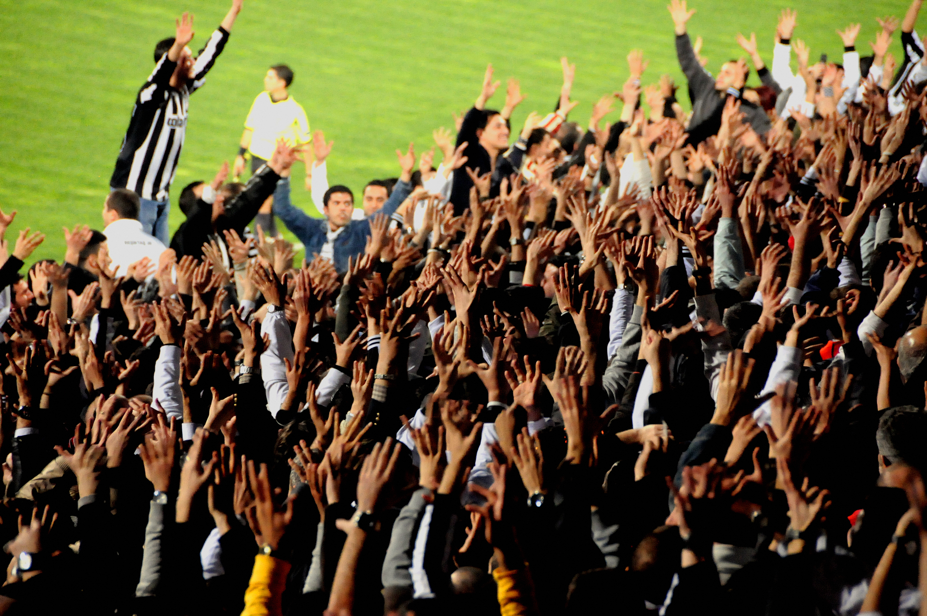 Beşiktaş fansTürkçe: Beşiktaş taraftarları